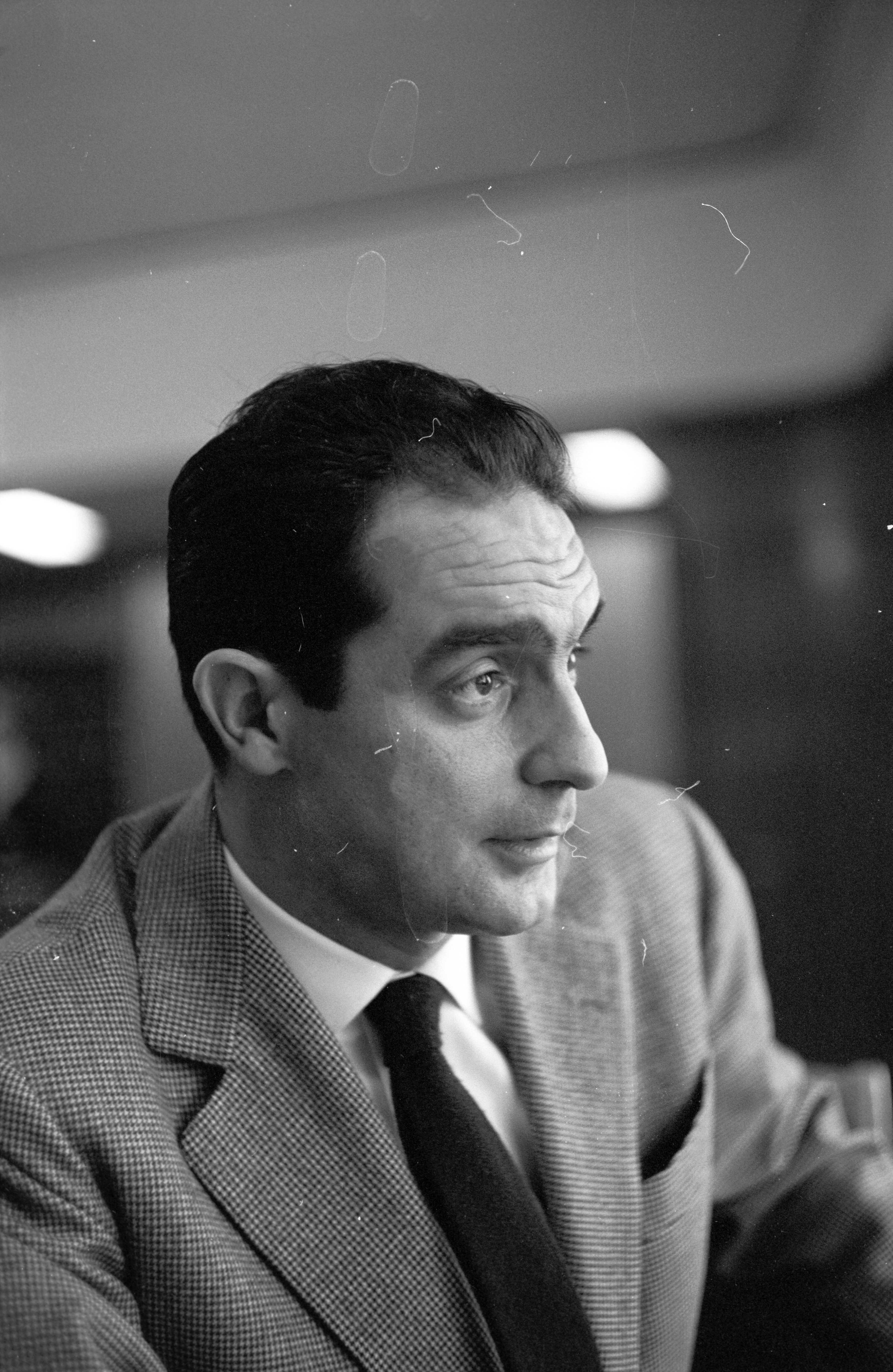 The Italian author Italo Calvino (1923-1985) photographed in Oslo, Norway on April 7, 1961 by Johan Brun, a photographer affiliated with the Norwegian newspaper "Dagbladet".